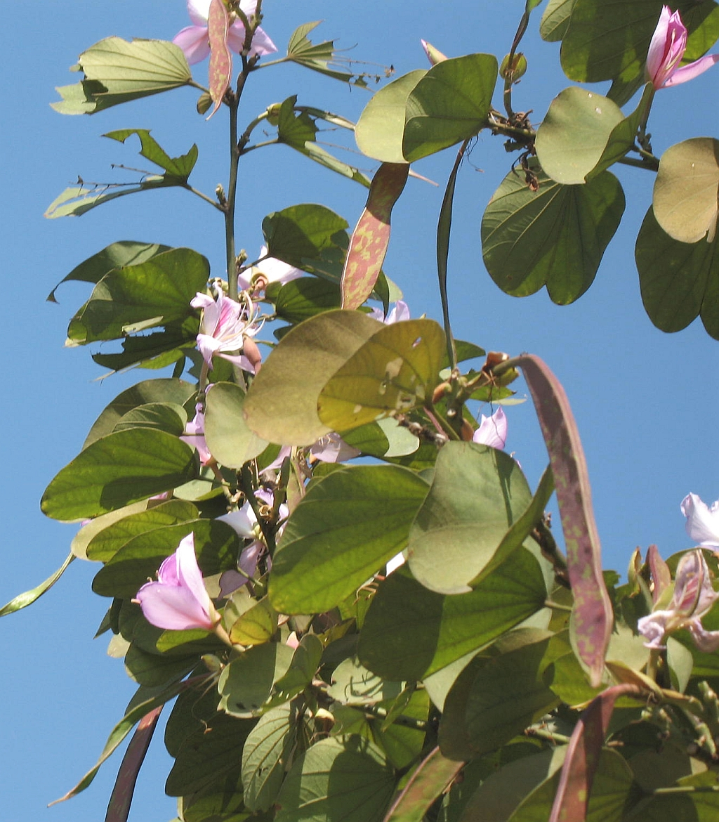 Bauhinia with flowers and fruits. Bauhinia com flores e frutos.